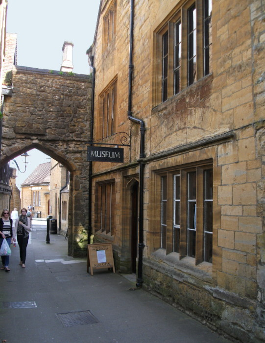 Sherborne Museum entrance in Church Lane, in the centre of Sherborne.